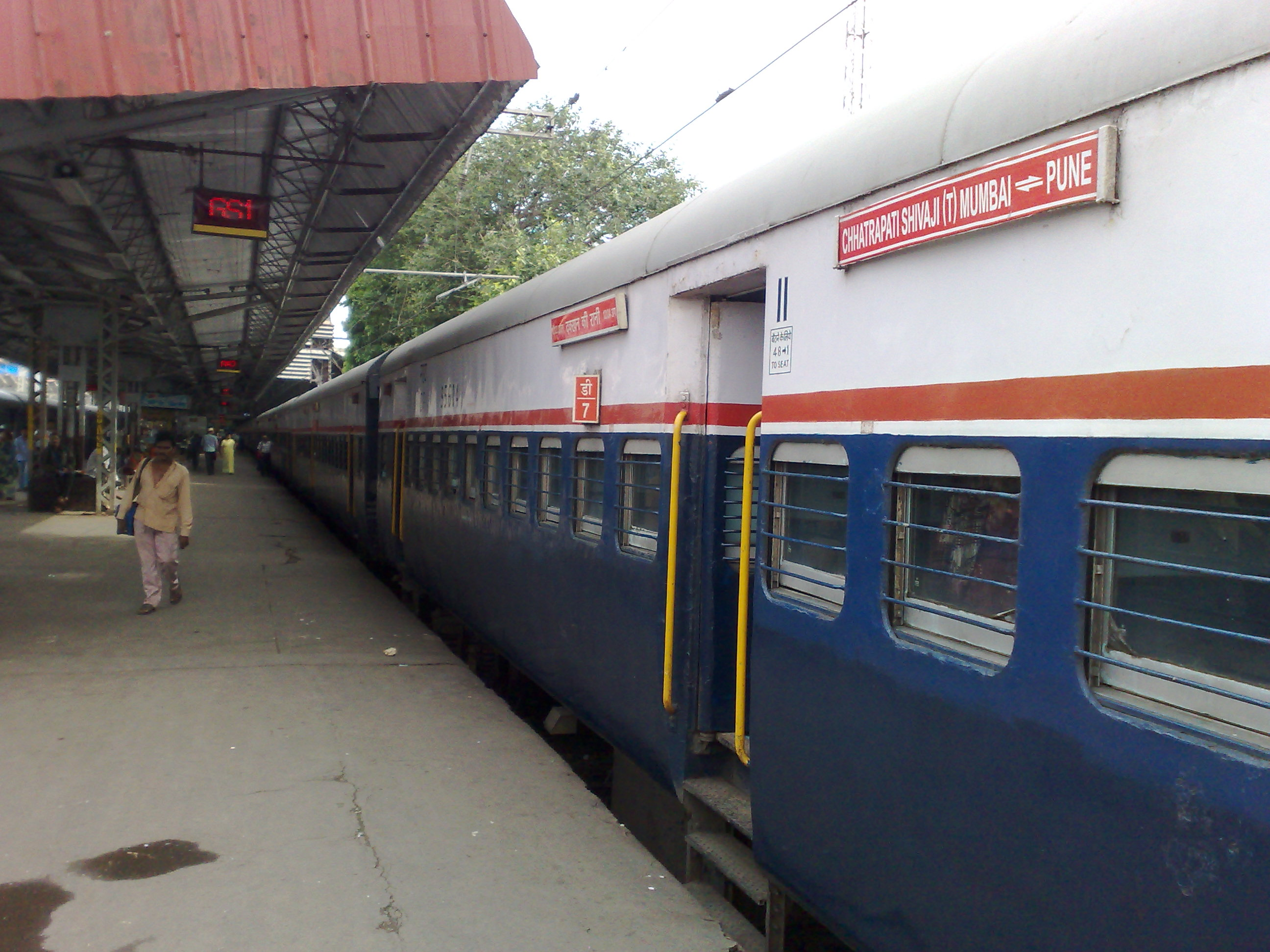 Deccan Queen Express